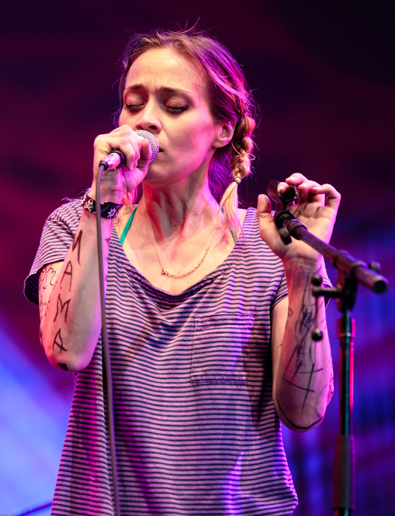 Fiona Apple joins the Watkins Family Hour house band for Bob Dylan’s Highway 61 Revisited at Lincoln Center's Out of Doors series, August 8, 2015. Photo by Sachyn Mital.